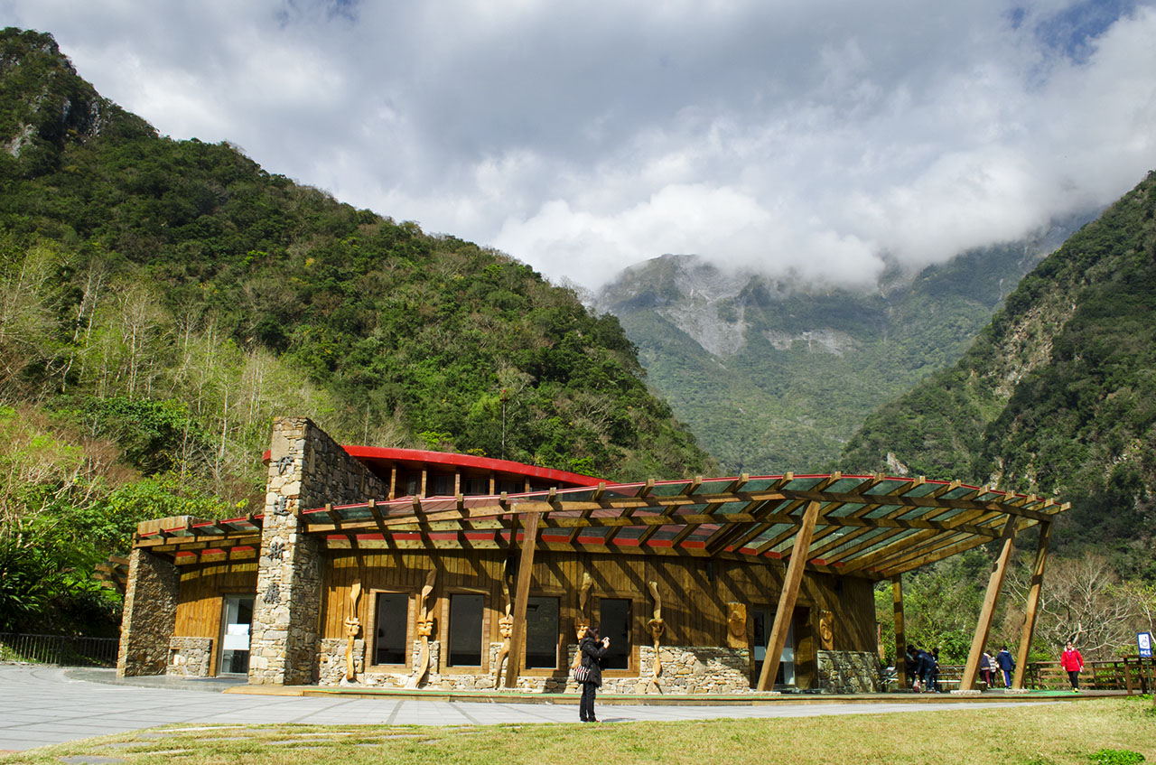 Idus Hall in Buluowan.